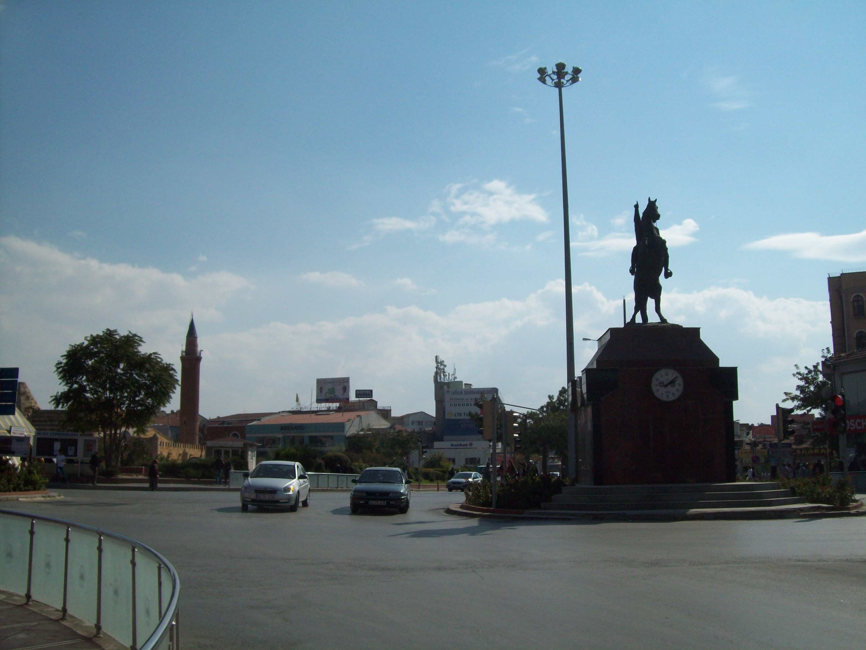 City center, Kirsehir